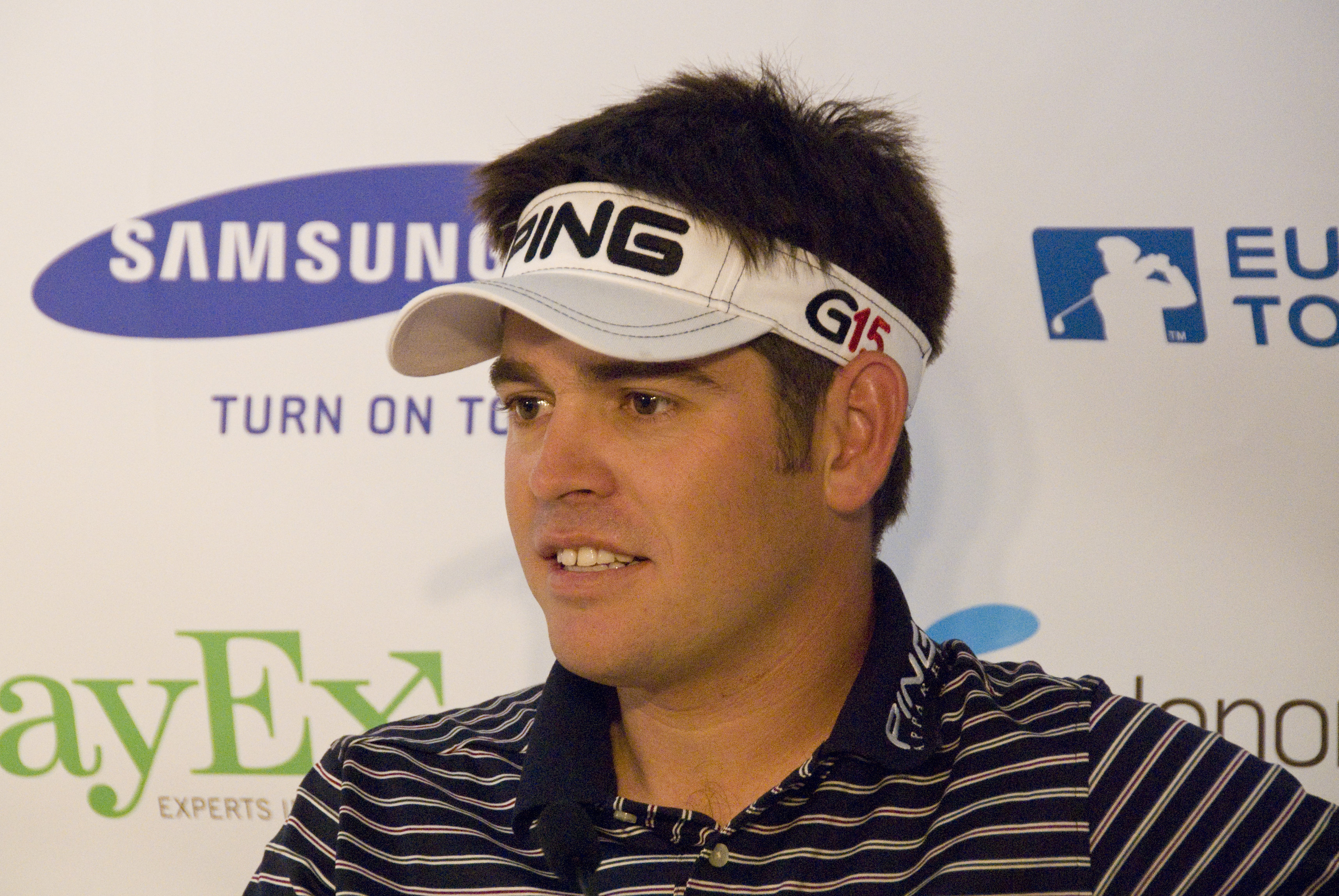 Louis Oosthuizen at Nordea Skandinavian Masters 2010